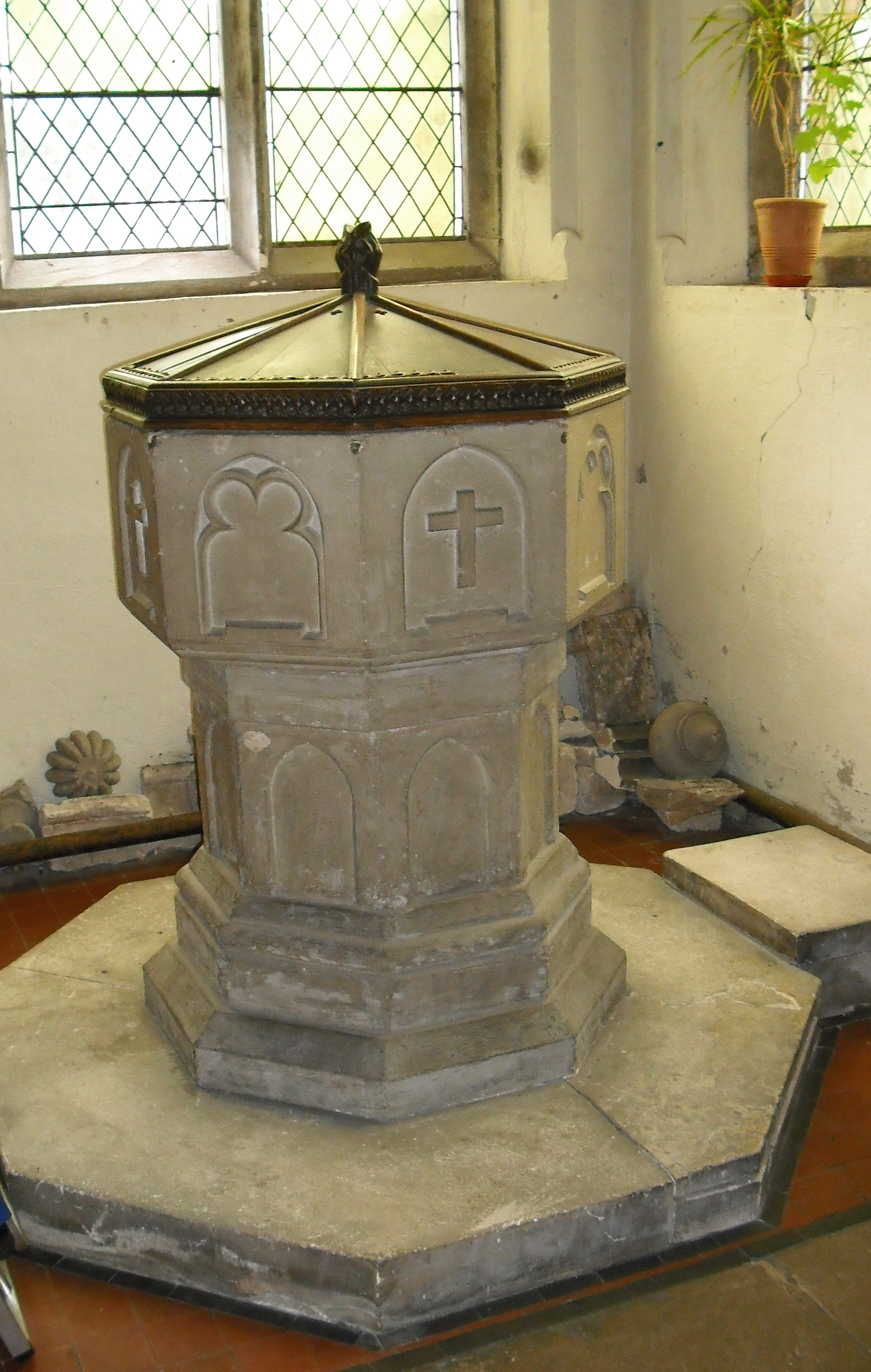 St Peter and St Mary's church, Stowmarket, Suffolk